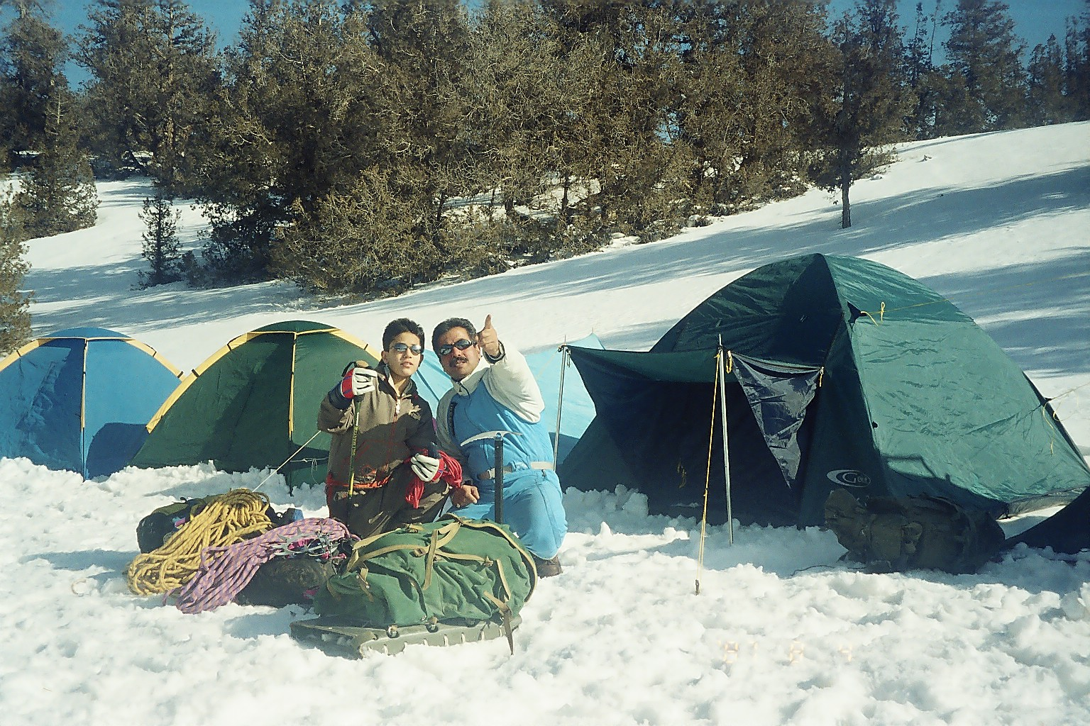 Snow camping in Ziarat in the middle of Juniper Forest by Chiltan Adventurers Association ,08-02-2003. headed by Hayatullah Khan Durrani and Abubakar Durrani the JUNIPER DEFENDERS.